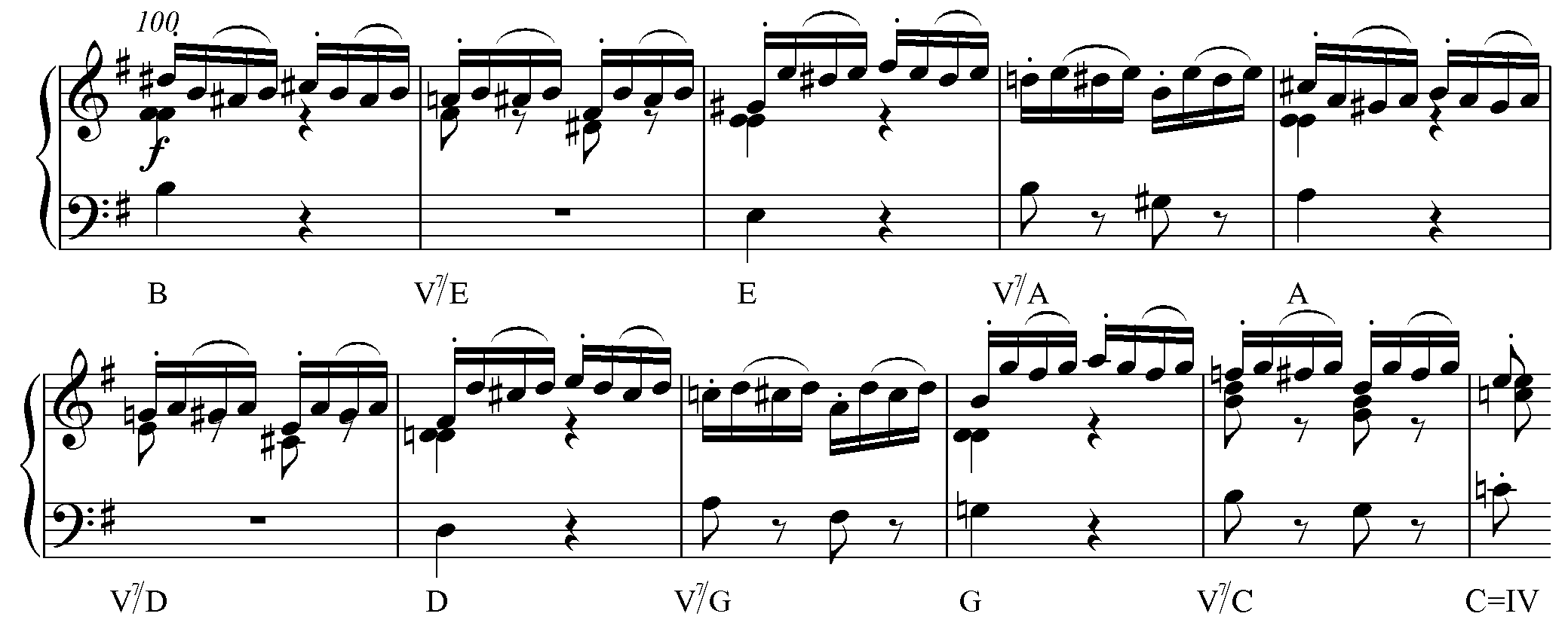 Sequential modulation through the circle of fifths in Haydn, Quartet Op. 3, No. 3, IV, Hob.III:15 (now considered spurious, perhaps by Roman Hoffstetter), piano reduction.